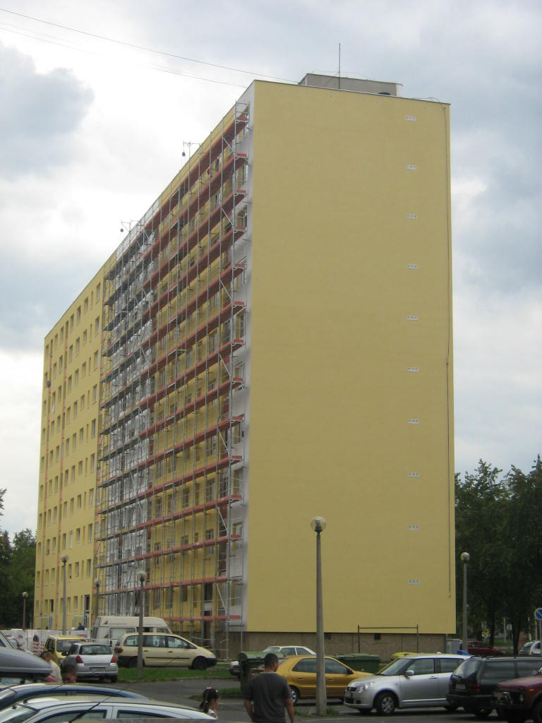 Block of flats, modernised in 2007 during the Housing Esteate Renewal Programe (hu. Panelprogram) in Kazincbarcika